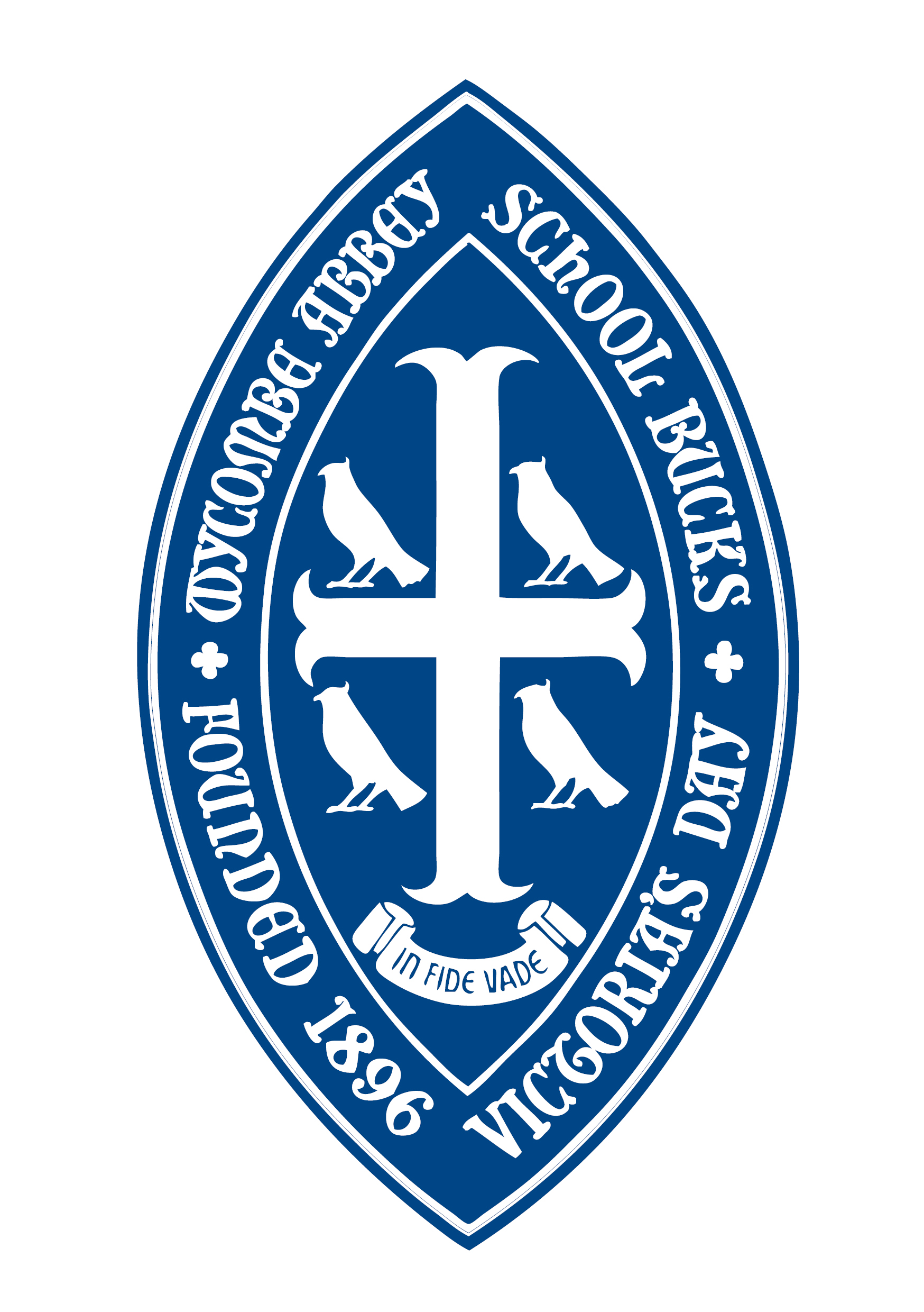 Wycombe Abbey Logo